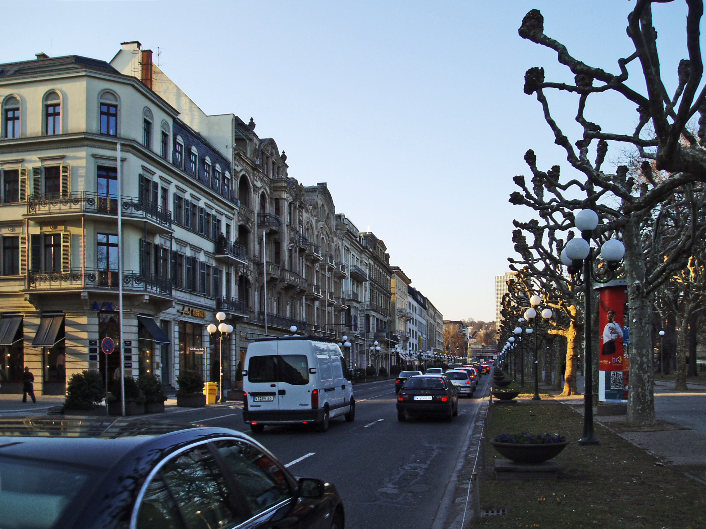 Picture of Wilhelmstraße in Wiesbaden